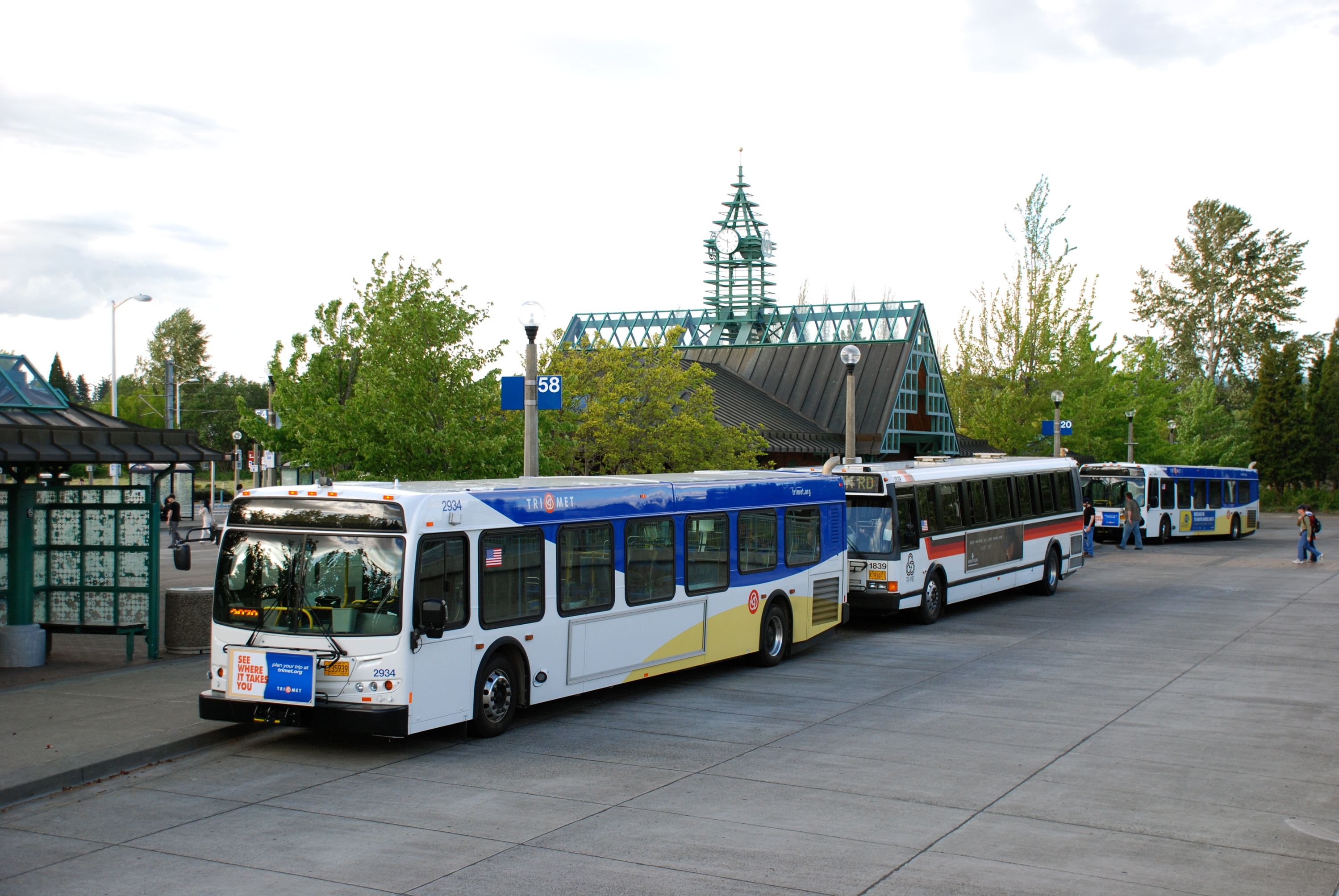 The southeast side of the bus loop at the Beaverton Transit Center of TriMet, the regional transit agency serving Portland, Oregon and surrounding areas. This transit center, located in central Beaverton, Oregon, opened in 1988 for buses, and later became served by light rail starting in 1998 and by commuter rail in 2009. The buses shown are two 2009-built New Flyer D40LFRs and a 1994-built Flxible Metro.